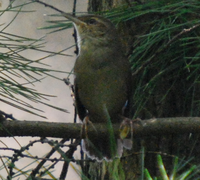 Sakhalin Grasshopper Warbler Locustella amnicola (syn. L. fasciolata amnicola), Hokkaido, Japan